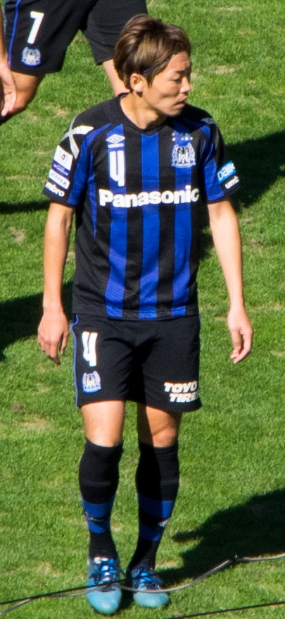 Hiroki Fujiharu, cropped from 2016JリーグYBCルヴァンカップ決勝-36 (29851470964).jpg